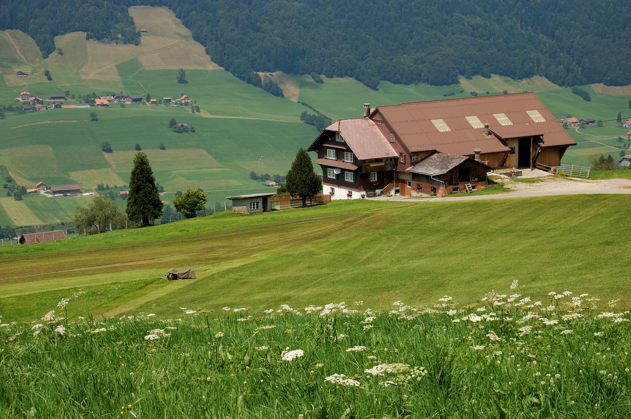 typical farm in the Entlebuch region, Switzerland